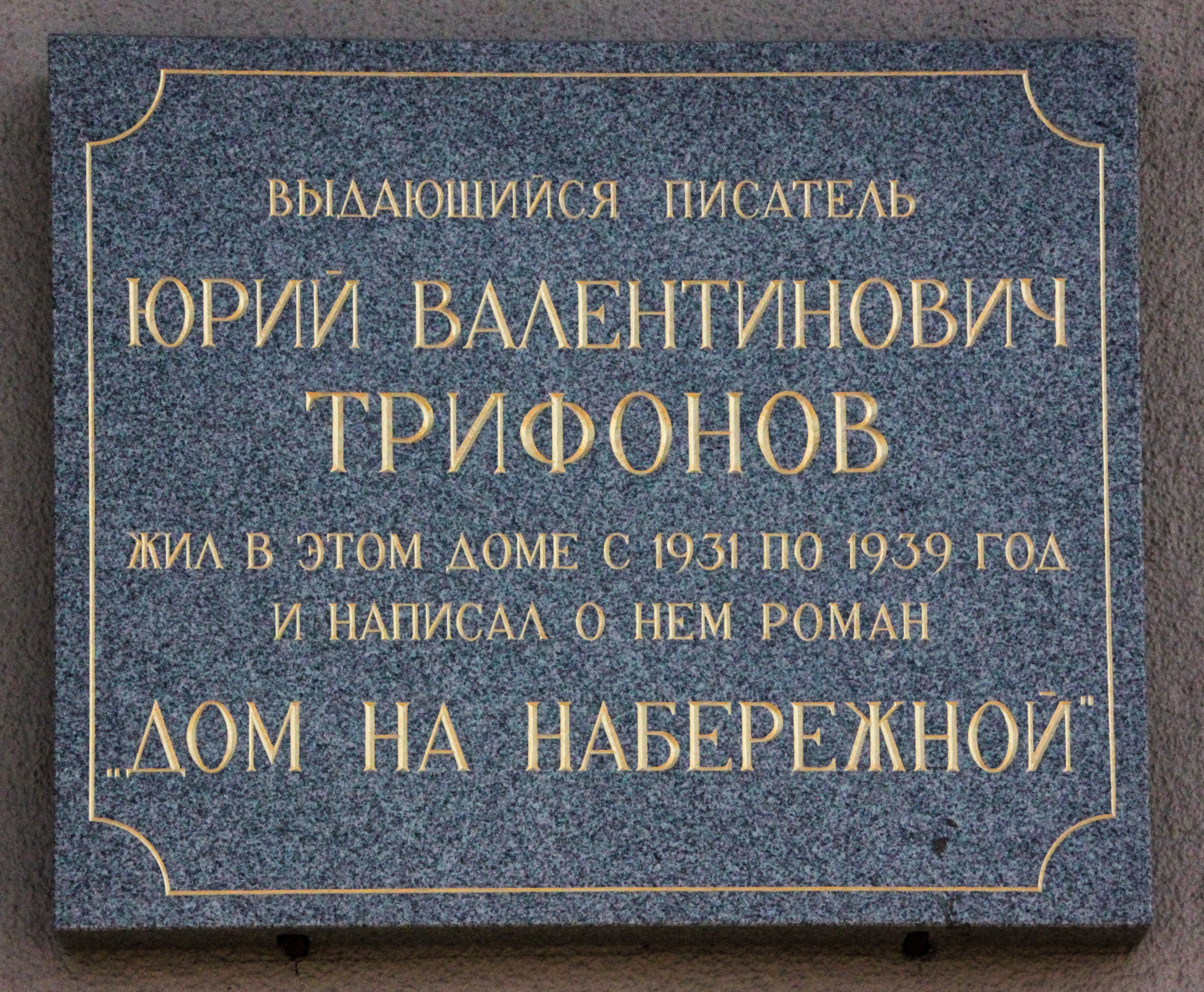 A remarkable writer Yury Valentinovich Trifonov lived in this building from 1931 to 1939 and wrote the novel "The House on the Embankment" about it.